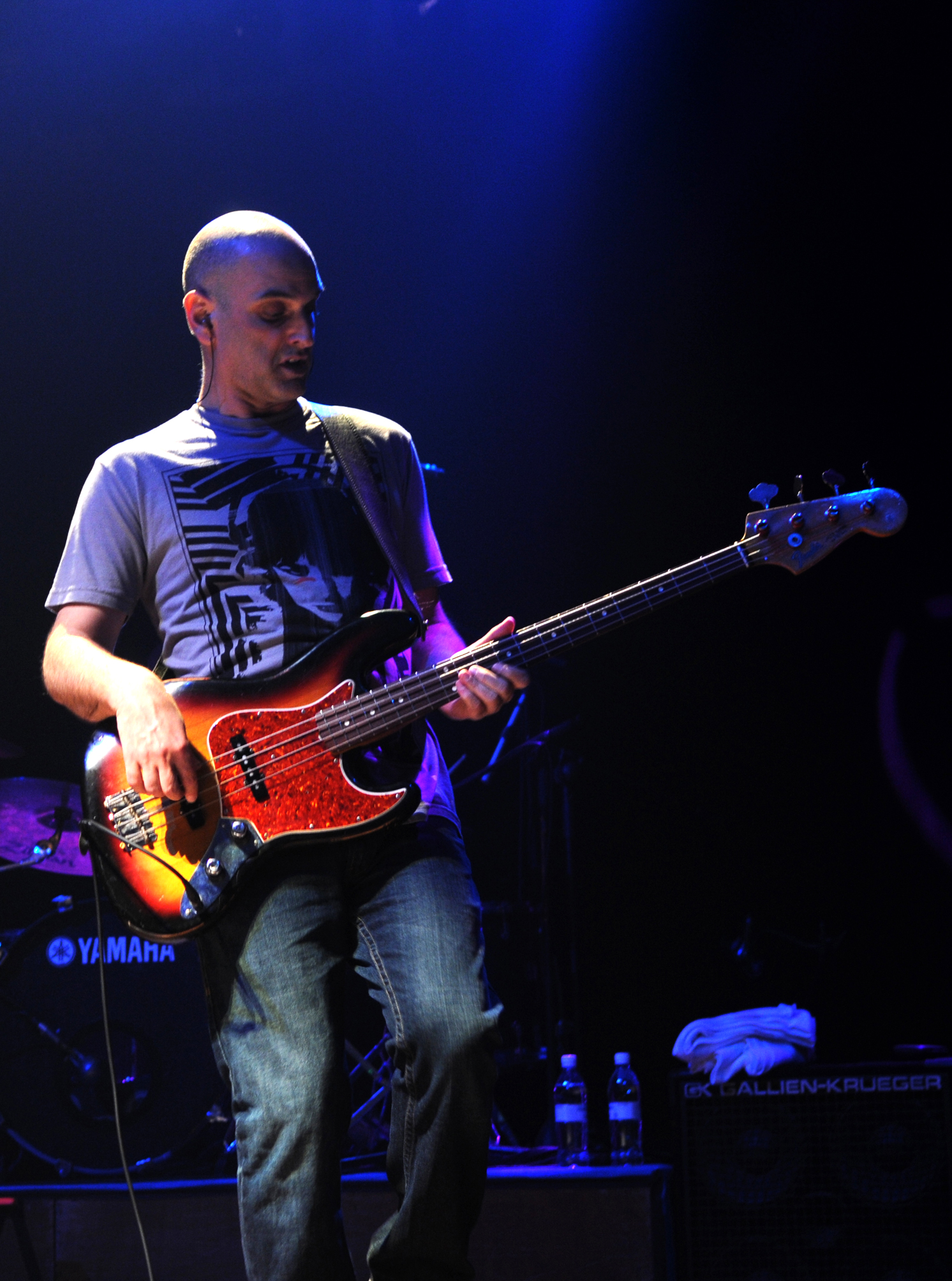 Guy Erez Live Play Bass with Alan Parsons in Tel Aviv